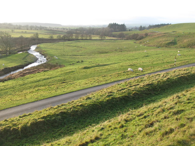 Ramparts and ditch of the Roman fort at Bewcastle (2), near to Bewcastle, Cumbria, Great Britain. Looking west towards Kirk Beck.